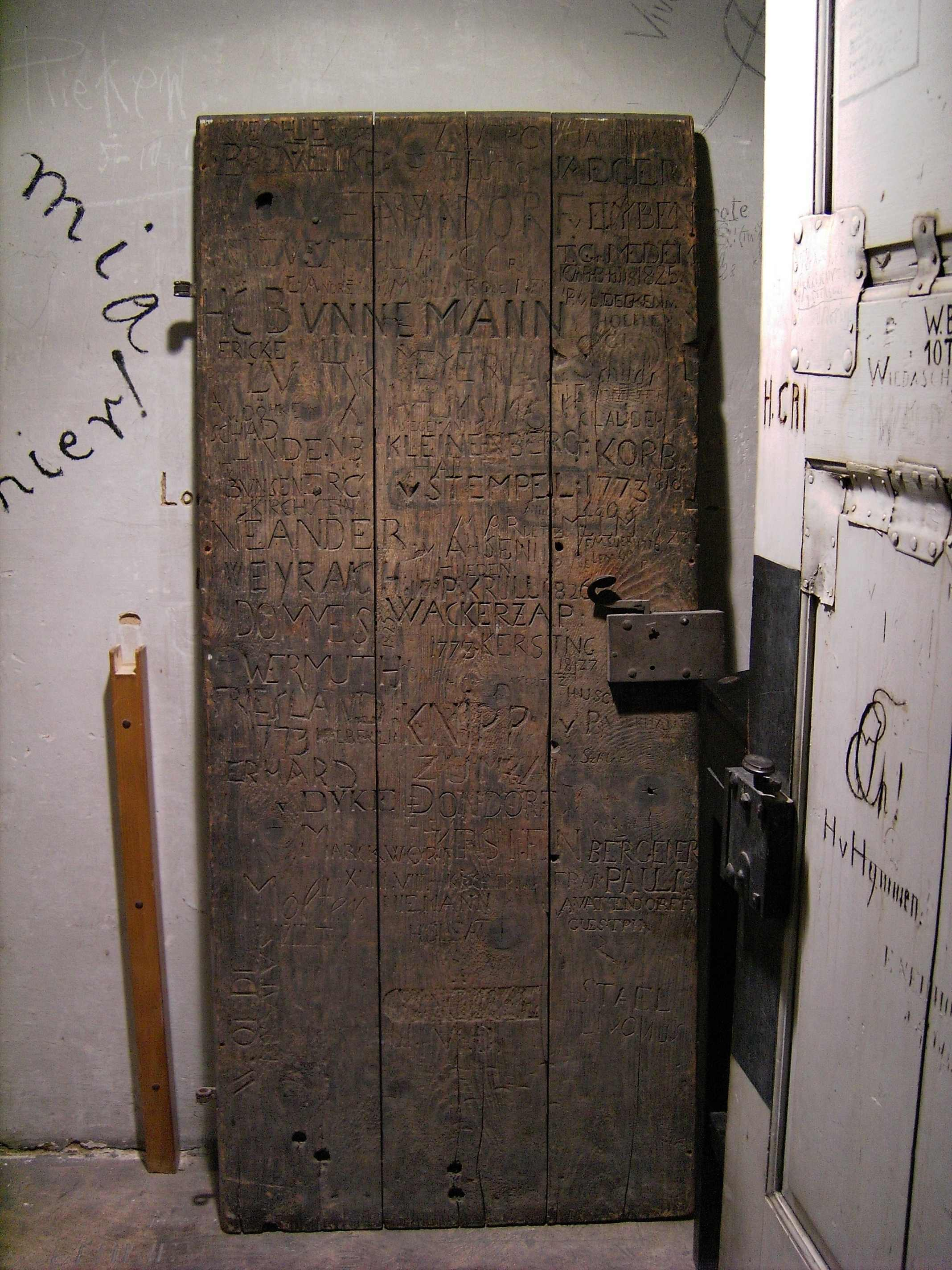 Description: Göttingen, University Karzer (arrest cell for students), in the Aula at Wilhelmsplatz. Doors had to be replaced often. Author: Thangmar, photo taken myself, 06.08.2005 Licence